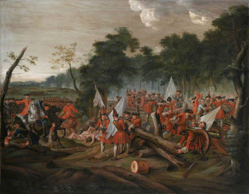 The Battle of Malplaquet, 11 September 1709. Here, the Duke of Marlborough and his troops enter enemy entrenchments.